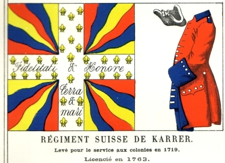 Regimental color and uniform of Swiss regiment de Karrer